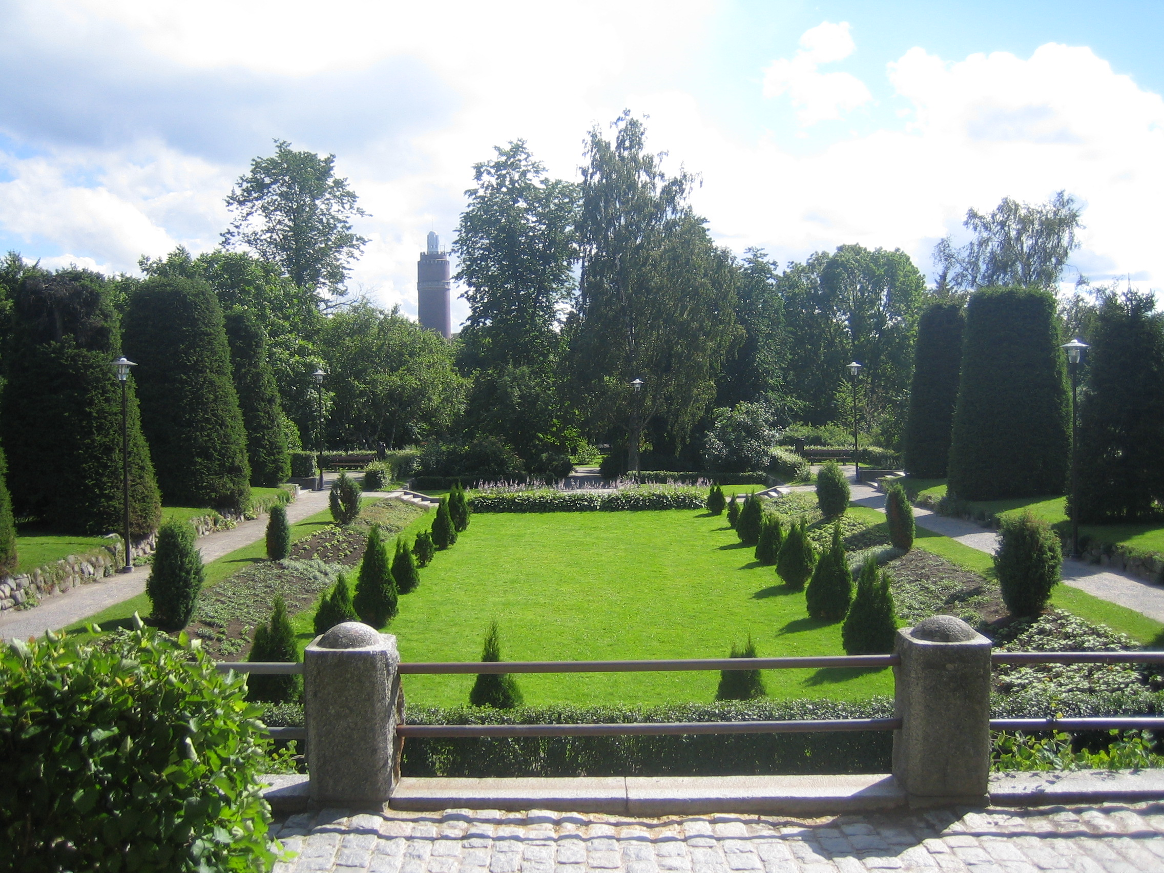 Skolparken ("The School Park"), Jakobstad, Finland.